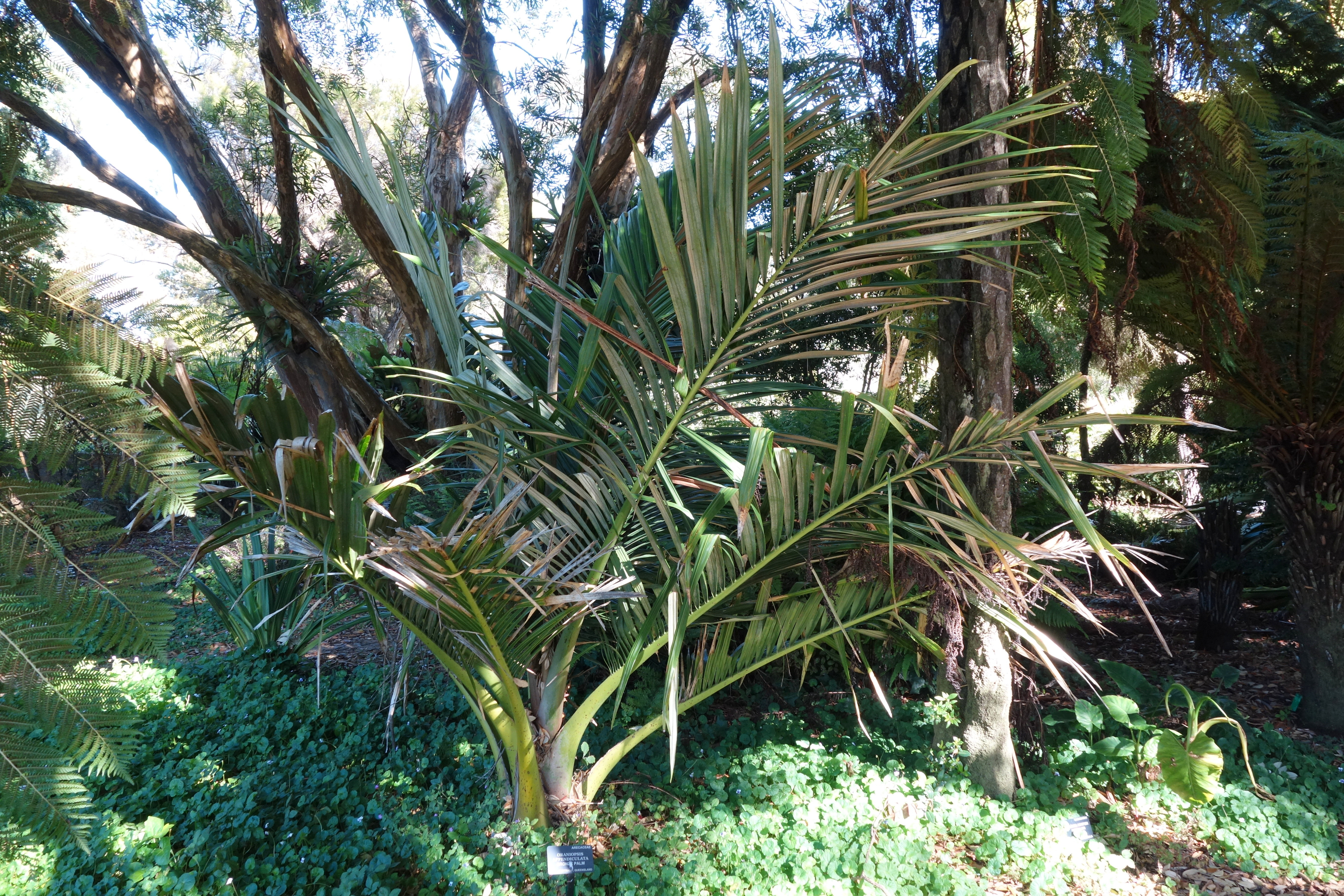 Botanical specimen in the San Francisco Botanical Garden, San Francisco, California, USA.